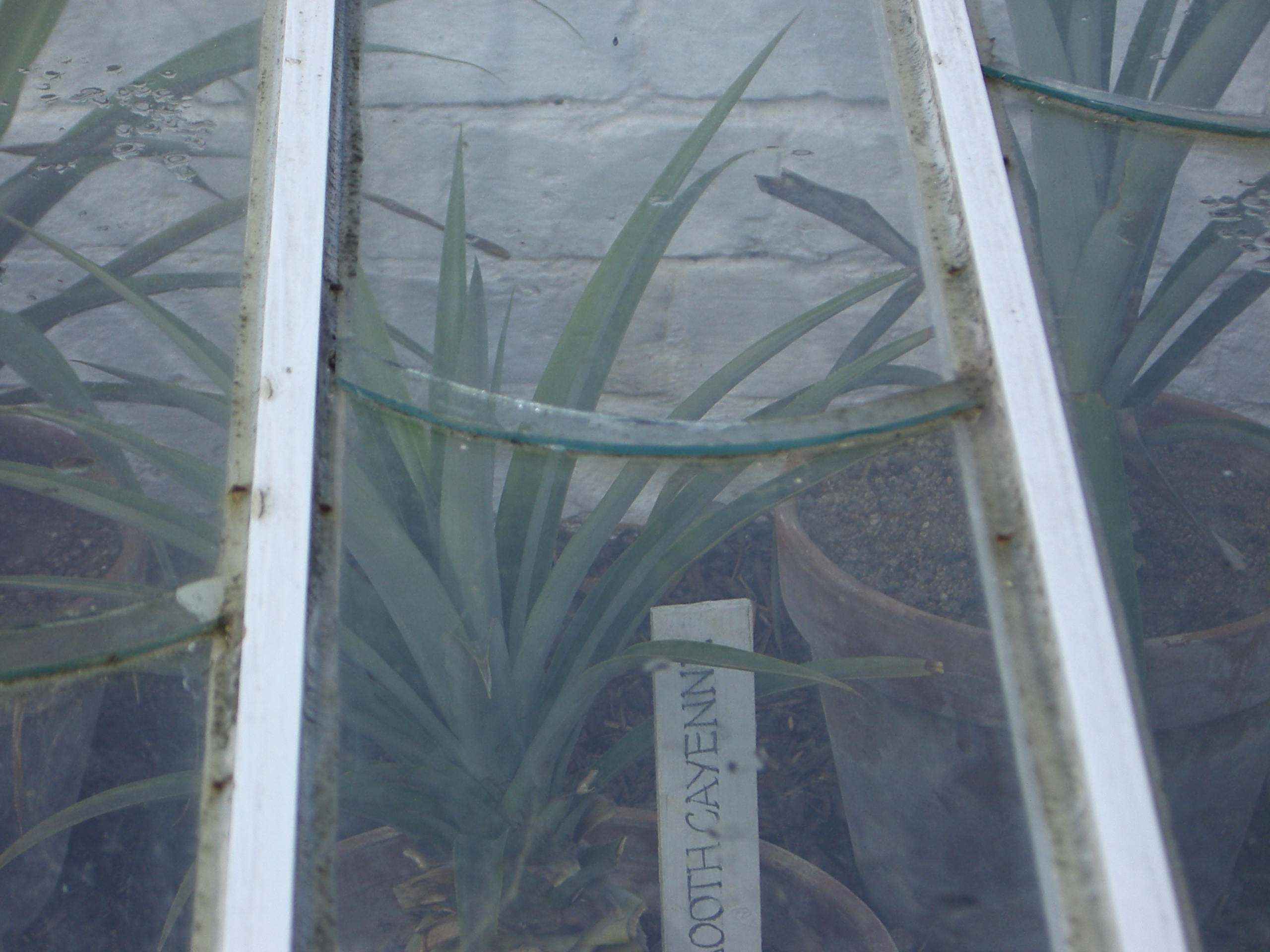 Close up colour photo of a pineapple pit, in the Lost Gardens of Heligan, Cornwall, UK